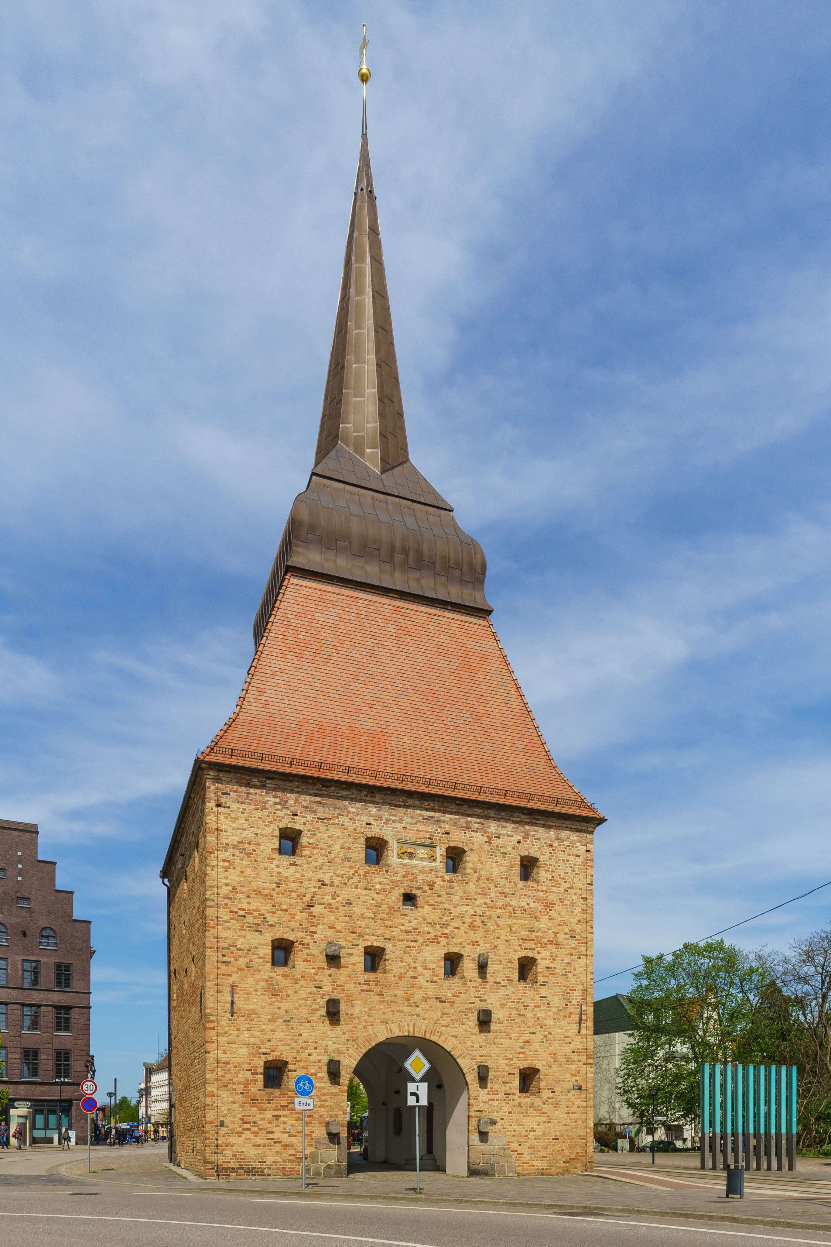 Tower of historical fortification in Rostock, Germany